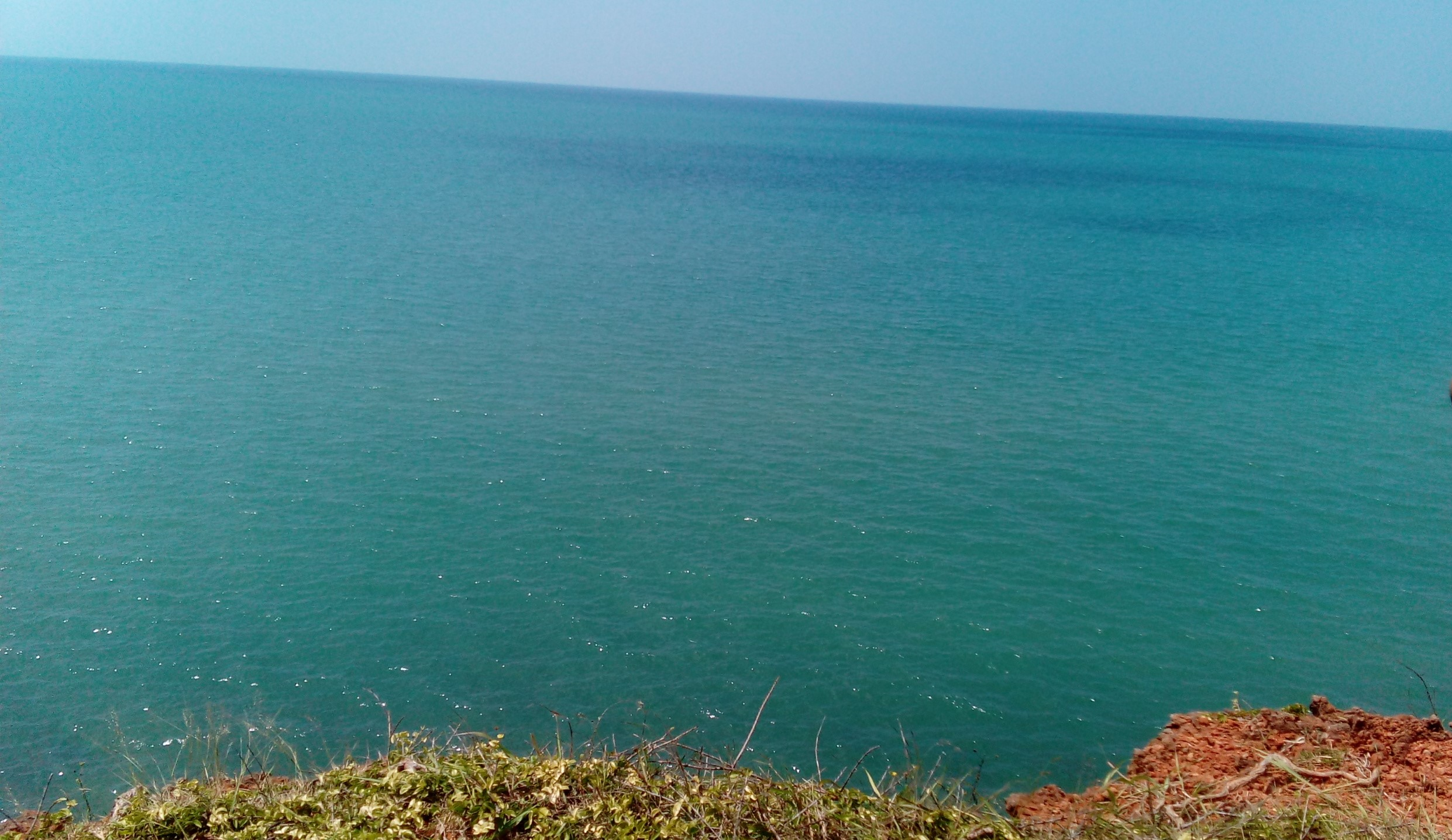 Tambapanni Seascape 7.3.20